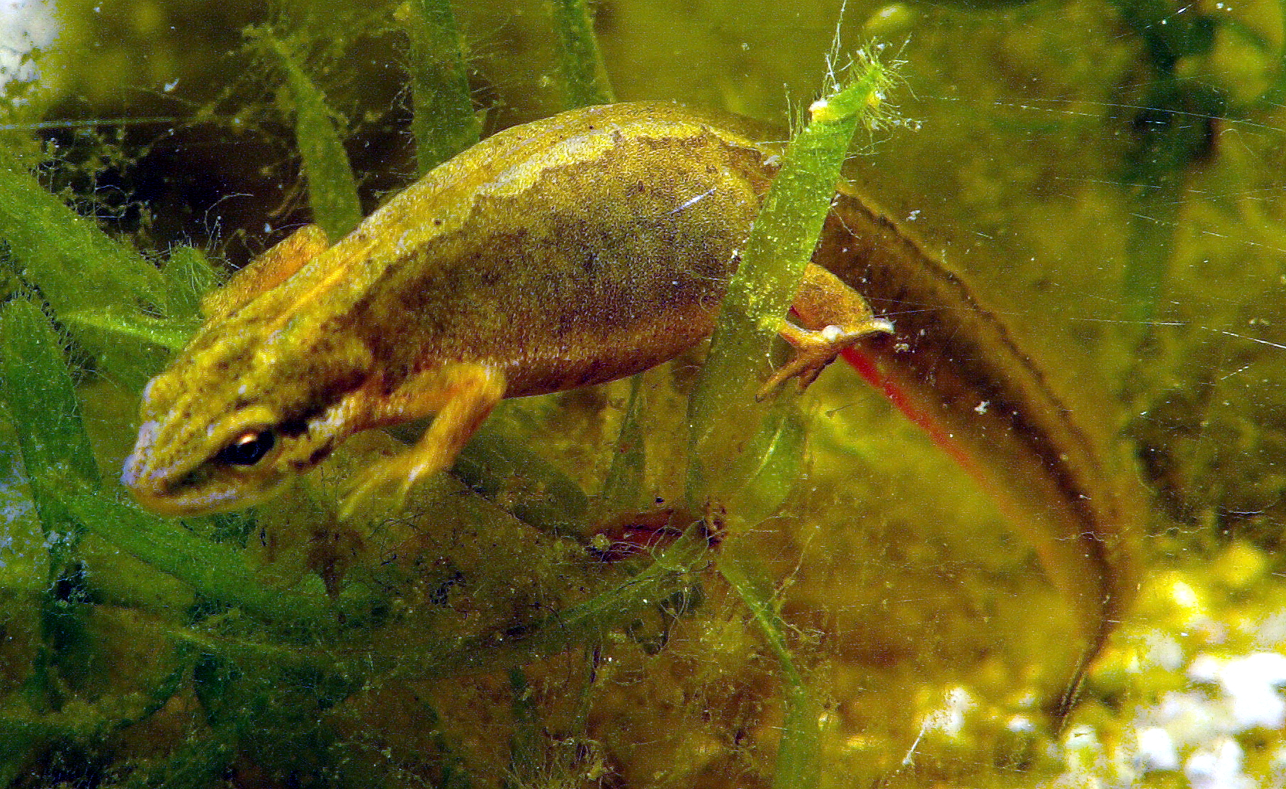 Female Smooth Newt (Lissotriton vulgaris aka Triturus vulgaris) during breeding season the Netherlands